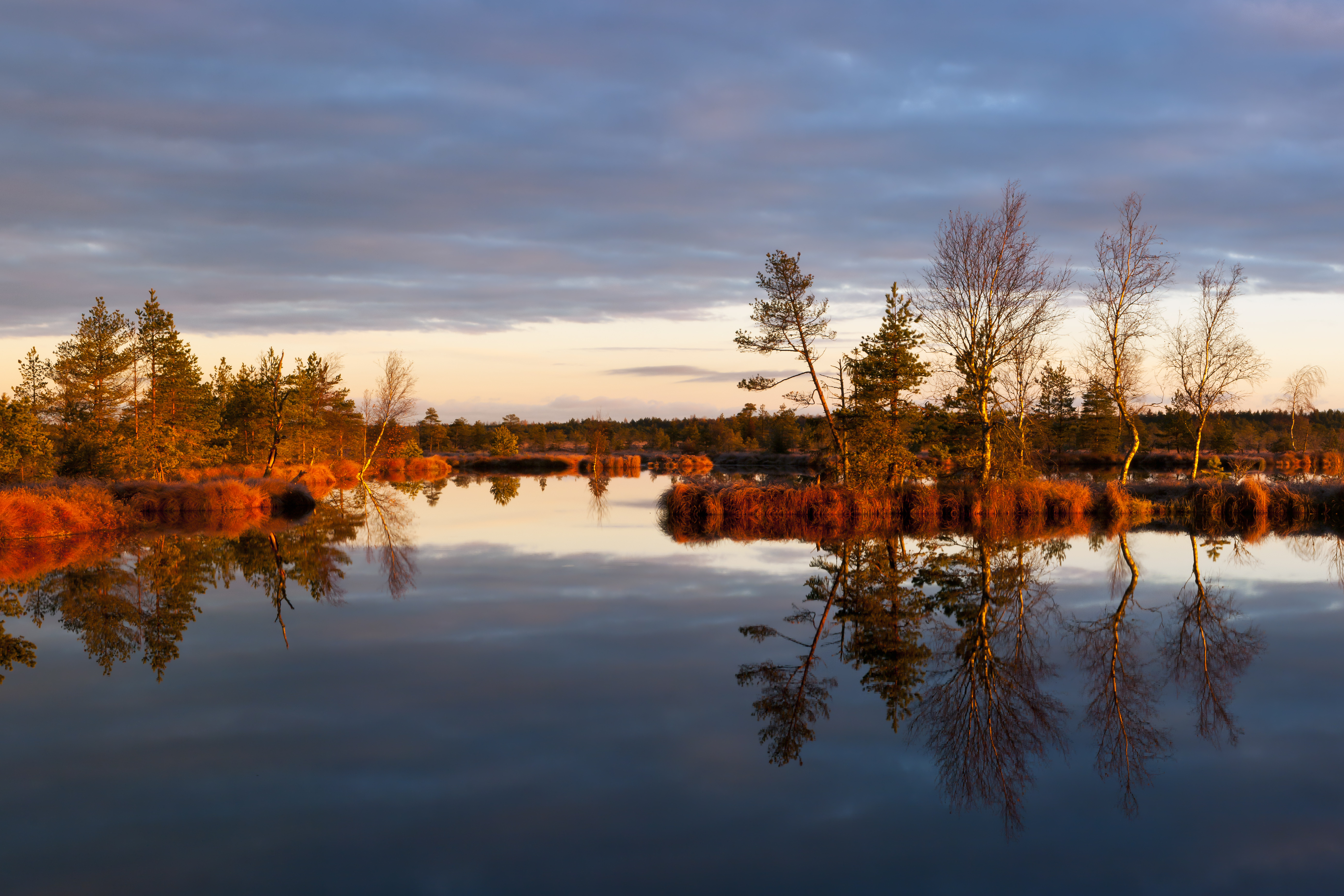 Morning in Rabivere Nature Park at Lake Kaselaug. Rapla County, Estonia.